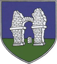 Coat of arms of Petronell-Carnuntum, Lower Austria